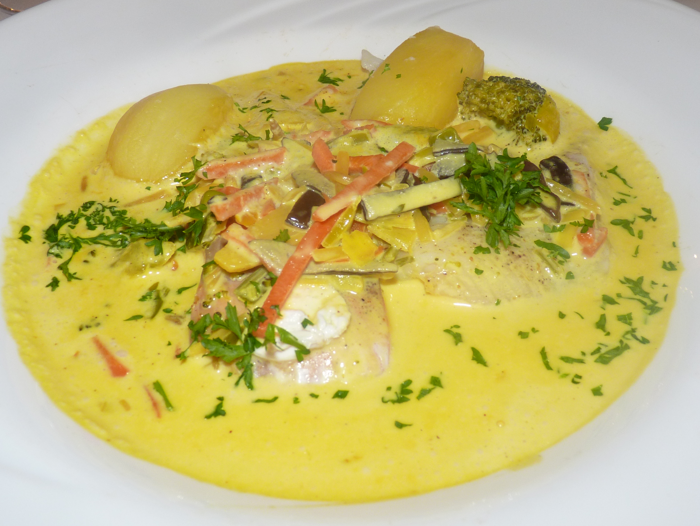 Fish waterzooi